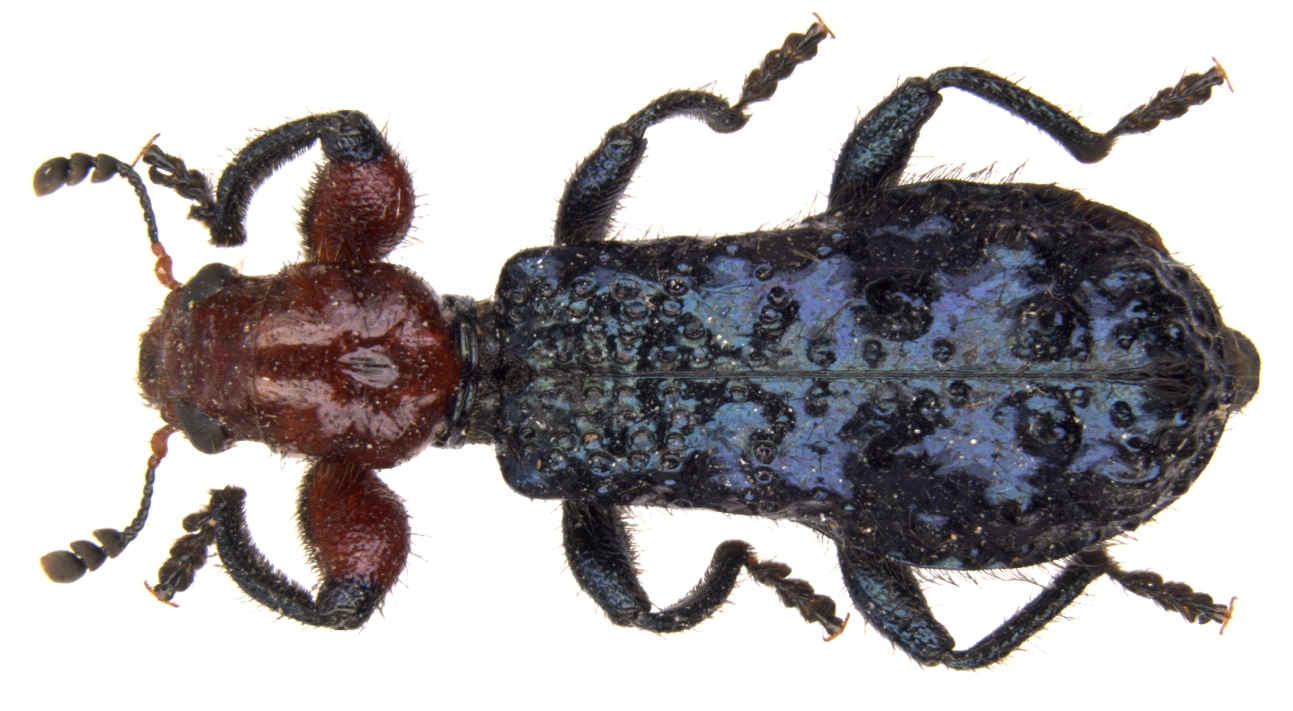 Habitus of Erymanthus diversipes